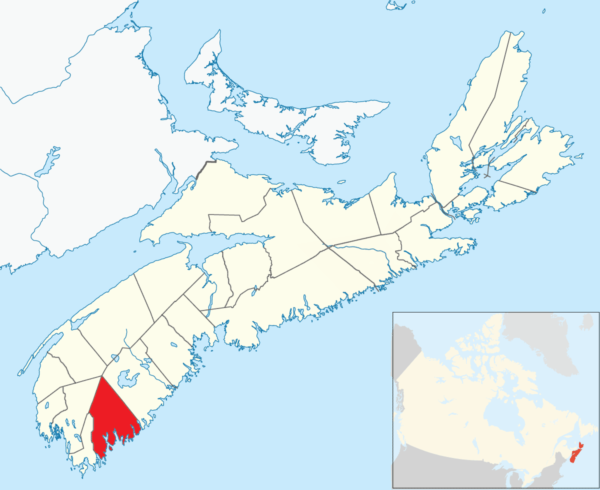 Location of Shelburne Municipal District in Shelburne County, Nova Scotia, Canada.